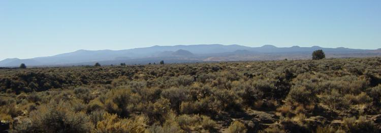 Lava Beds National Monument, California. Medicine Lake Volcano from Captain Jack's Stronghold